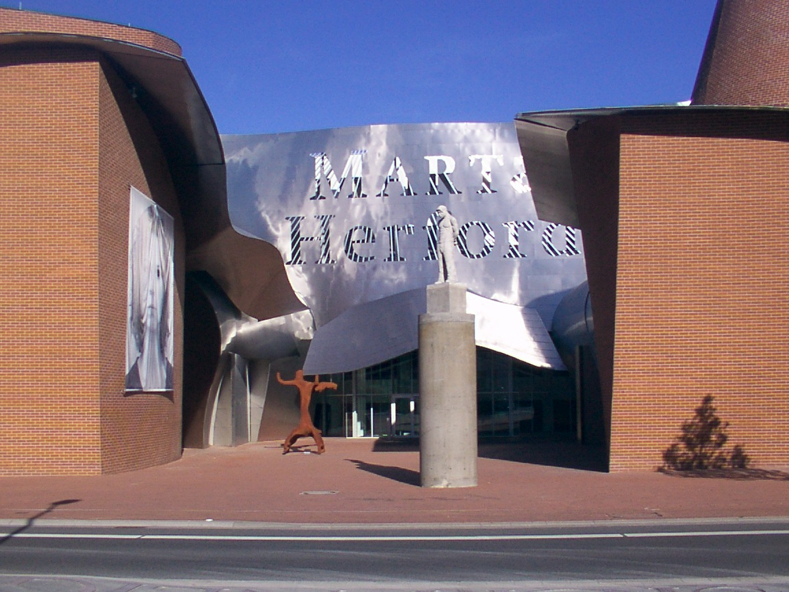 entrance of the MARTa in the city of Herford, district of Herford, North Rhine-Westphalia, Germany.